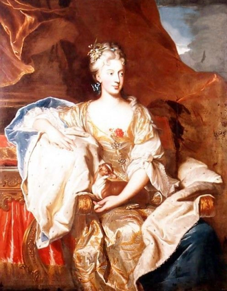 Suzanne Henriette of Lorraine as Duchess of Mantua